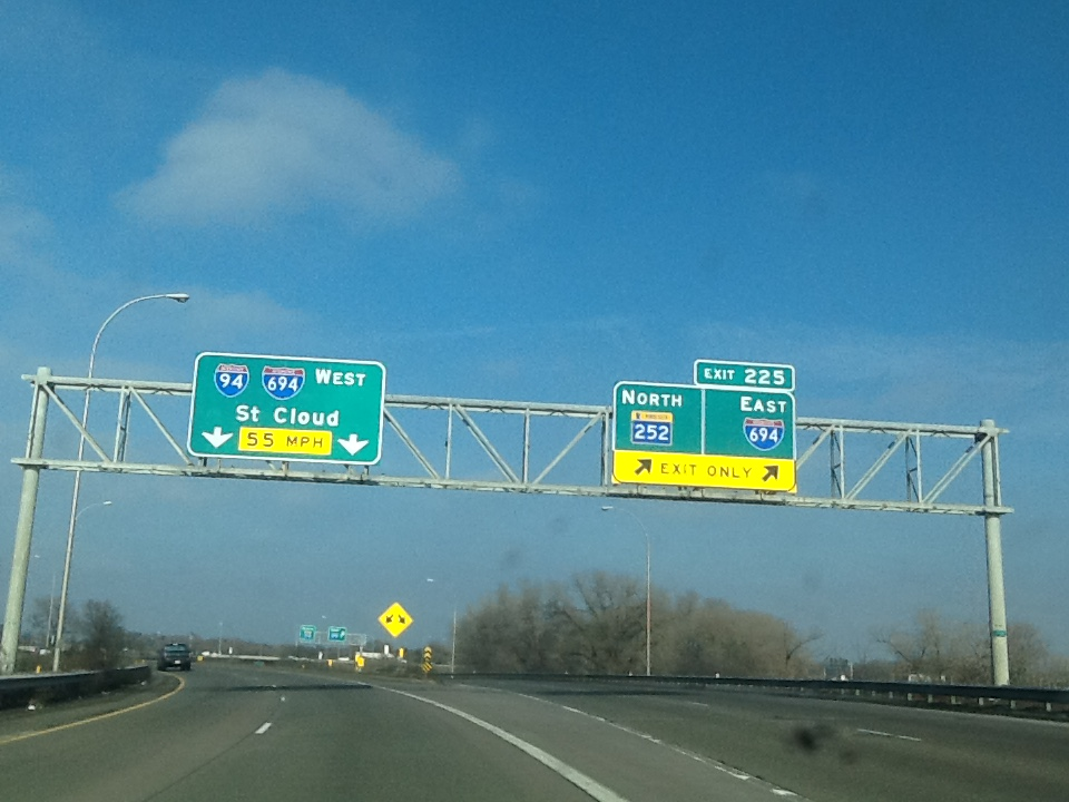 This picture was taken from I-94 which will run concurrent with I-694 just ahead.